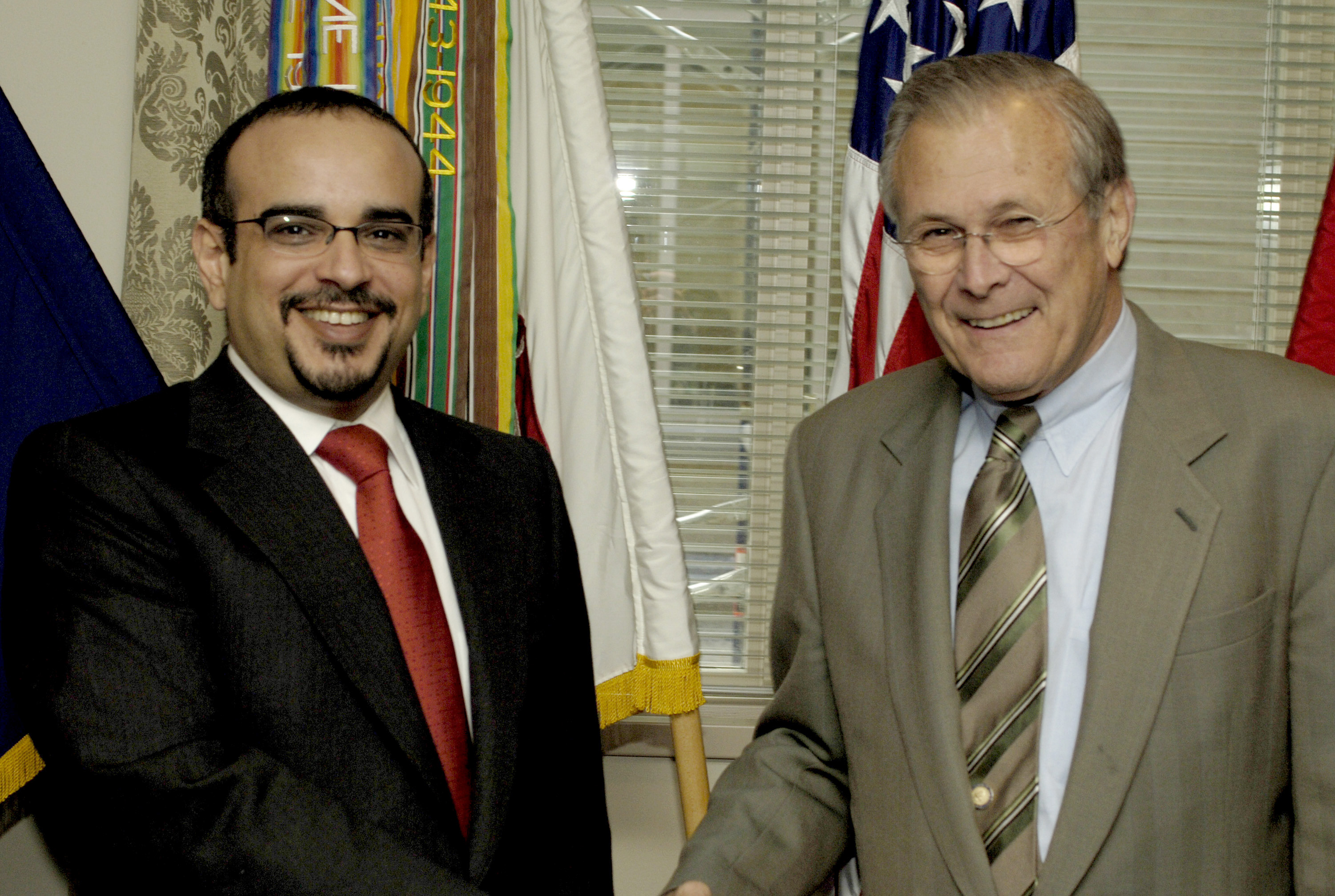 Secretary of Defense Donald H. Rumsfeld, right, shakes hands with Salman Al-Khalifa, the Crown Prince and Commander in Chief of Bahrain Defense Forces, prior to a meeting at the Pentagon in Arlington, Va.